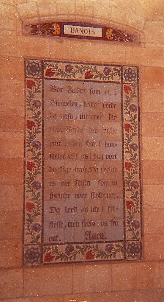 Lord's Prayer in danish in the Pater Noster Chapel in Jerusalem